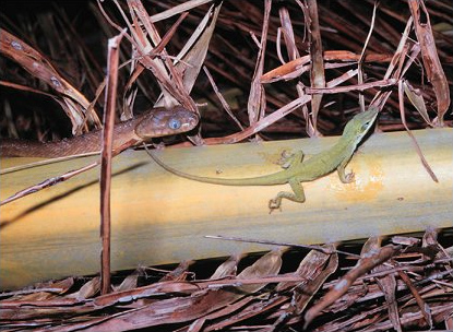 Brown tree snake (Boiga irregularis) and green anole (Anolis carolinensis)